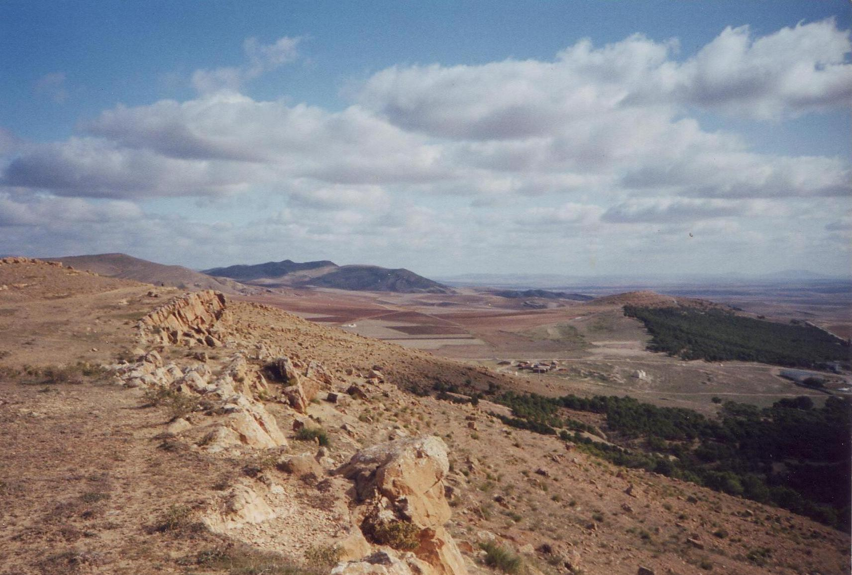 Au premier;le versant méridional de l'Atlas tellien.Au second plan;la foret de pin d'Alep issu du reboisement.Au fond les hautes plaines d'Oum el bouaghi.(Ksar Sbahi)